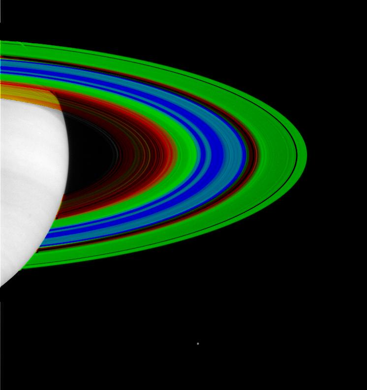 The varying temperatures of Saturn's rings are depicted here in this false-color image from the Cassini spacecraft. This image represents the most detailed look to date at the temperature of Saturn's rings. The image was made from data taken by Cassini's composite infrared spectrometer instrument. Red represents temperatures of about 110 K (−163 °C; −262 °F), blue 70 K (−203 °C; −334 °F), and green 90 K (−183 °C; −298 °F). Water freezes at 273 K (0 °C; 32 °F). The spatial resolution of the ring portion of the image is 200 km (124 mi). The data show that the opaque region of the rings, like the outer A ring (on the far right) and the middle B ring, are cooler, while more transparent sections, like the Cassini Division (in red just inside the A ring) or the inner C ring (shown in yellow and red), are relatively warmer. The temperature data were taken on July 1, 2004, of the unlit side of the rings. In order to show the full breadth of the rings, a strip of temperature data was mapped onto a picture of the lit side of the rings taken with the Cassini narrow angle camera on May 11, 2004, a little over a month before Saturn orbit insertion. Cassini is too close to the planet and hence no pictures of the unlit side of the rings are available, so the temperature data were mapped onto a picture of the lit side of rings. Saturn is overexposed and pure white in this picture. Saturn's moon Enceladus is visible below the rings, toward the center. The original picture and caption are available at PIA05410.